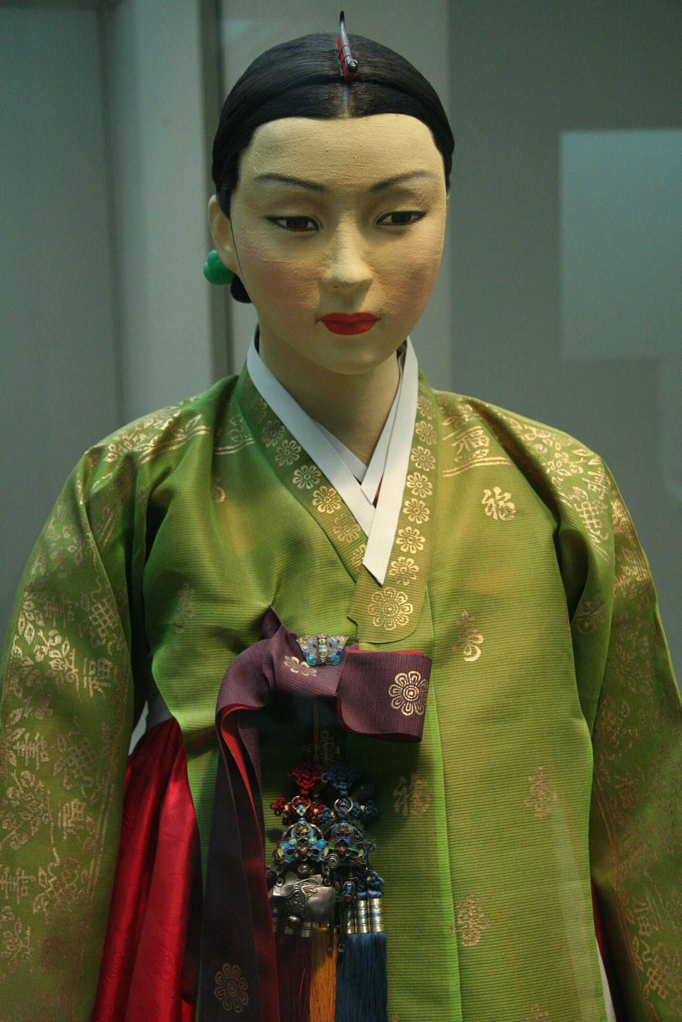 Display of Korean royal lady at National Folk Museum of Korea, Seoul, South Korea.